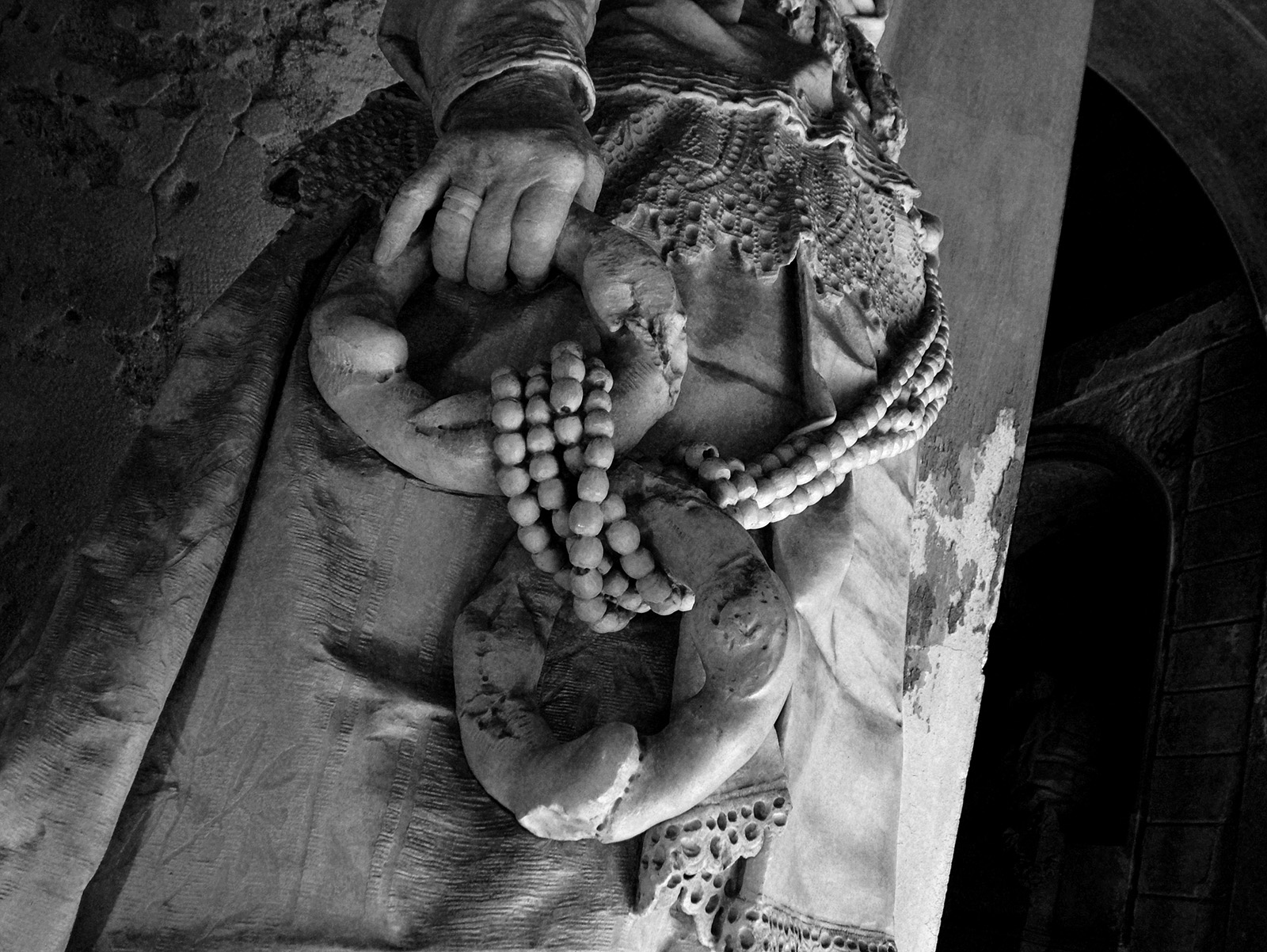 Monument to Caterina Campodonico (details) in Genoa - Italy.